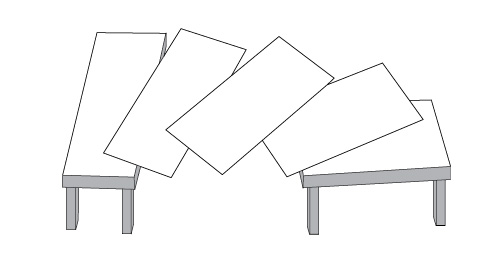 illusions